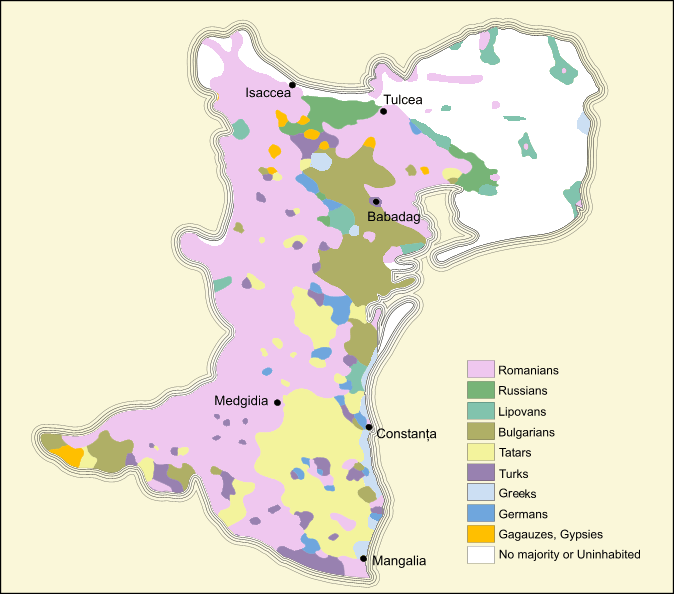 Ethnic map of northern Dobruja at the beginning of the XXth century.